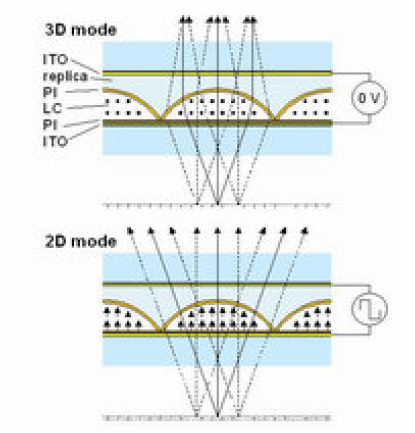 3D and 2D compatibility mode in 3D TV.